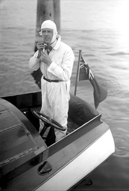 Henry Segrave at Templiner See, Germany Original caption: "Bundesarchiv, Bild 102-09944Foto: o.Ang. I Juni 1930" — removed caption